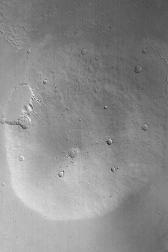 Shield vulcano Hecates Tholus on Mars